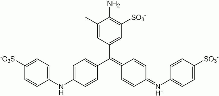 Description: Chemical structure of Water blue Author, date of creation: selfmade by Shaddack, 6 November 2005 Source: self-made Copyright: Public Domain (PD) Comments: b/w hires PNG; ChemDraw